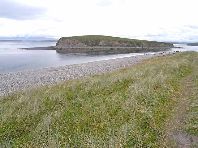 Inishdaugh One of the numerous small islands which are in fact drowned drumlins at the head of Clew Bay. The sea has cut cliffs into the boulder clay of the islands. Seen from the northern tip of Bartraw Strand.